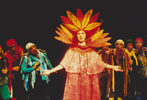 Marise Mendes em " ", peça de 2001.